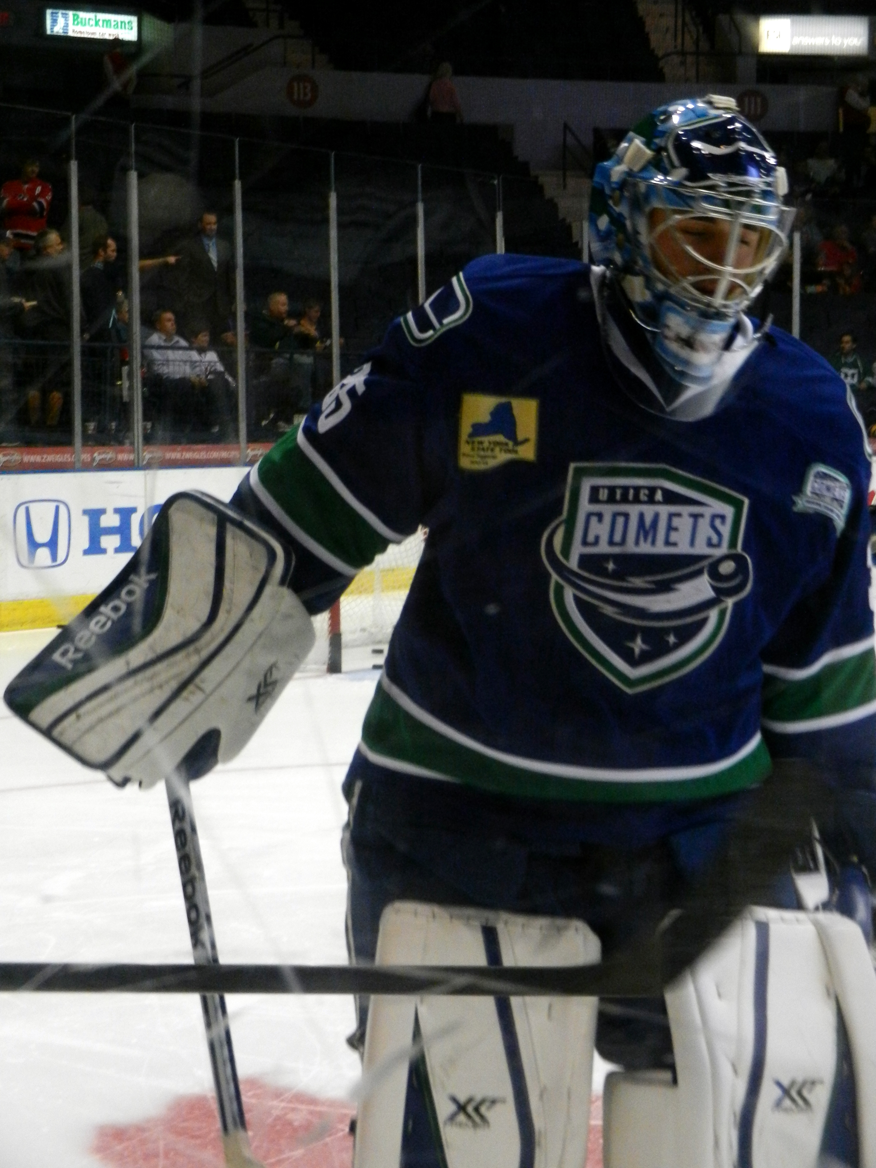 Joe Cannata during warm-ups before a Utica Comets Game during the 2013-14 season